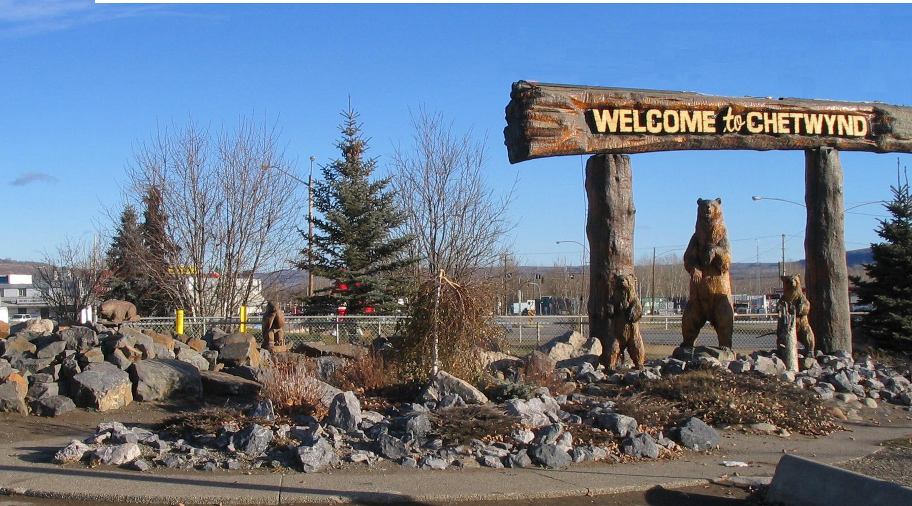 Image shows the chainsaw carving welcome sign for the town of Chetwynd. It is located along provinvial highway 97 facing traffic that is going east into the Peace River country and away from the Rocky Mountains. Photo taken by maclean25 in November 2005